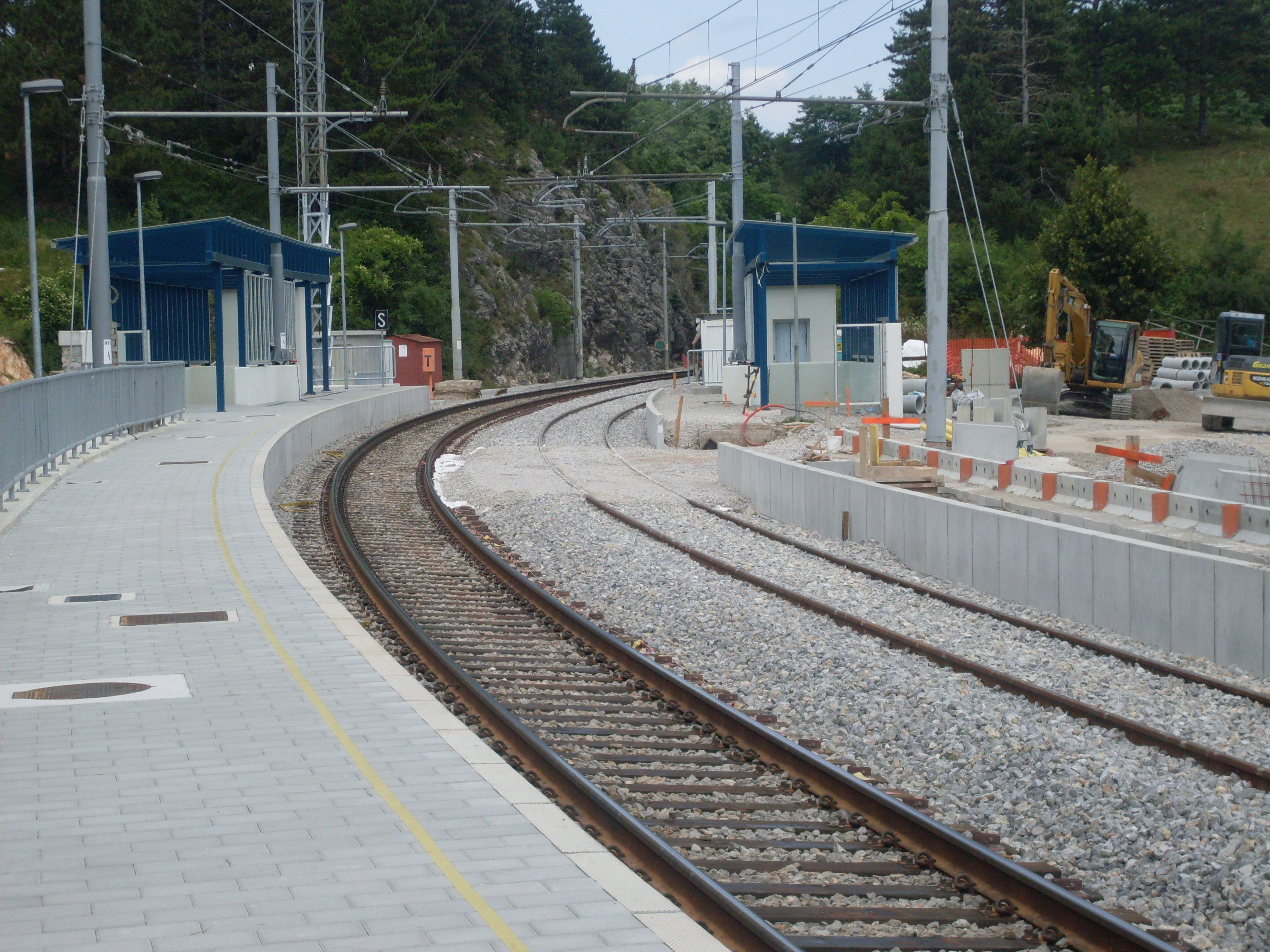 Railway halt Košana (during a complete reconstruction in 2010 and 2011), located between Gornja Košana and Čepno.